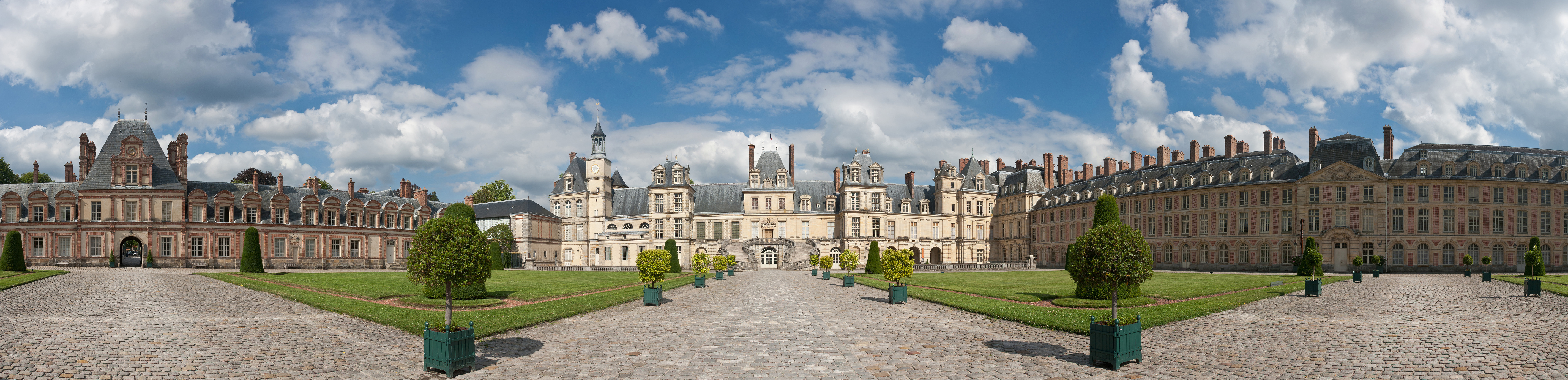 A thirteen segment panoramic image of the Palace of Fontainebleau in France.